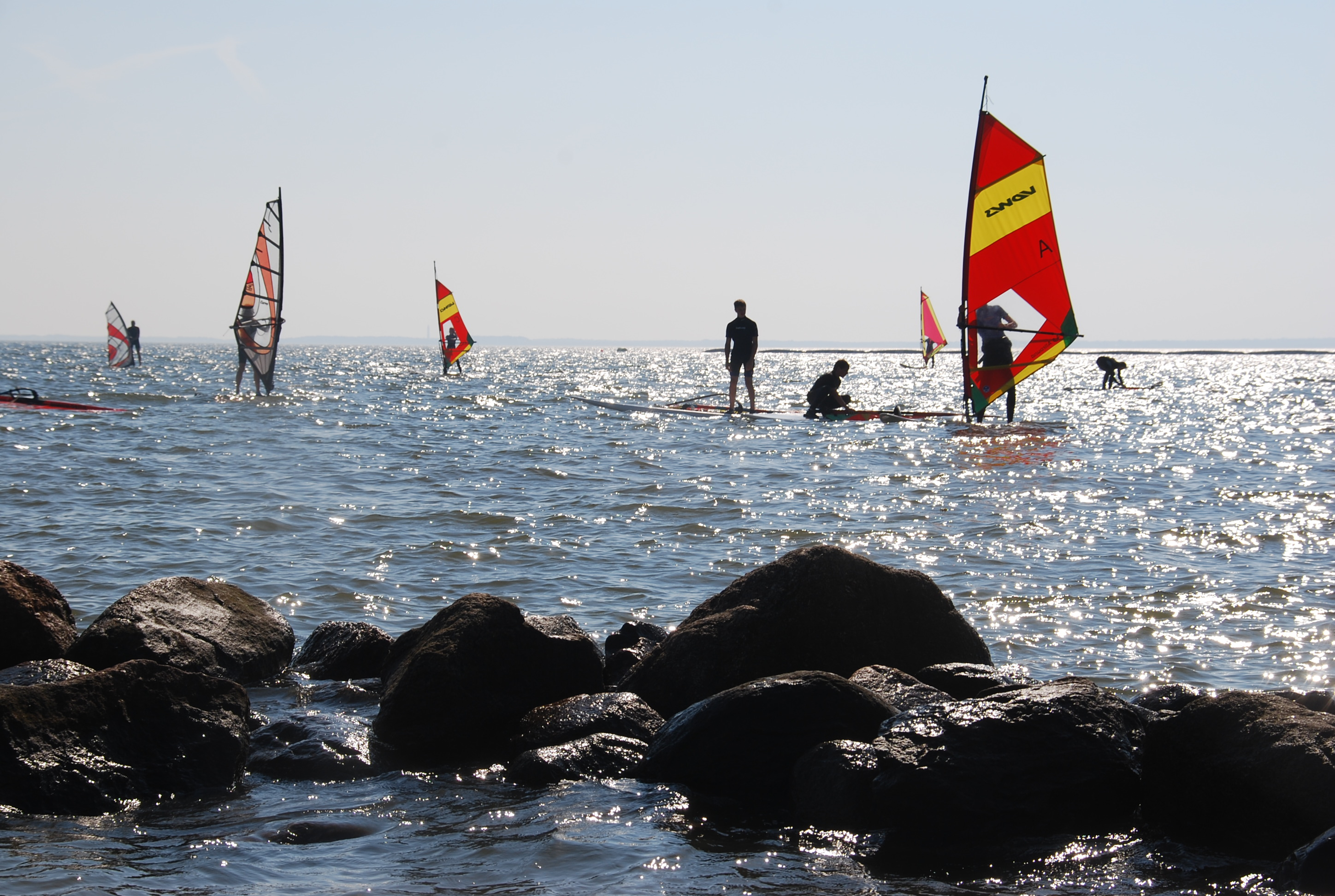 Surfer's beach, Nieblum, Föhr, Germany